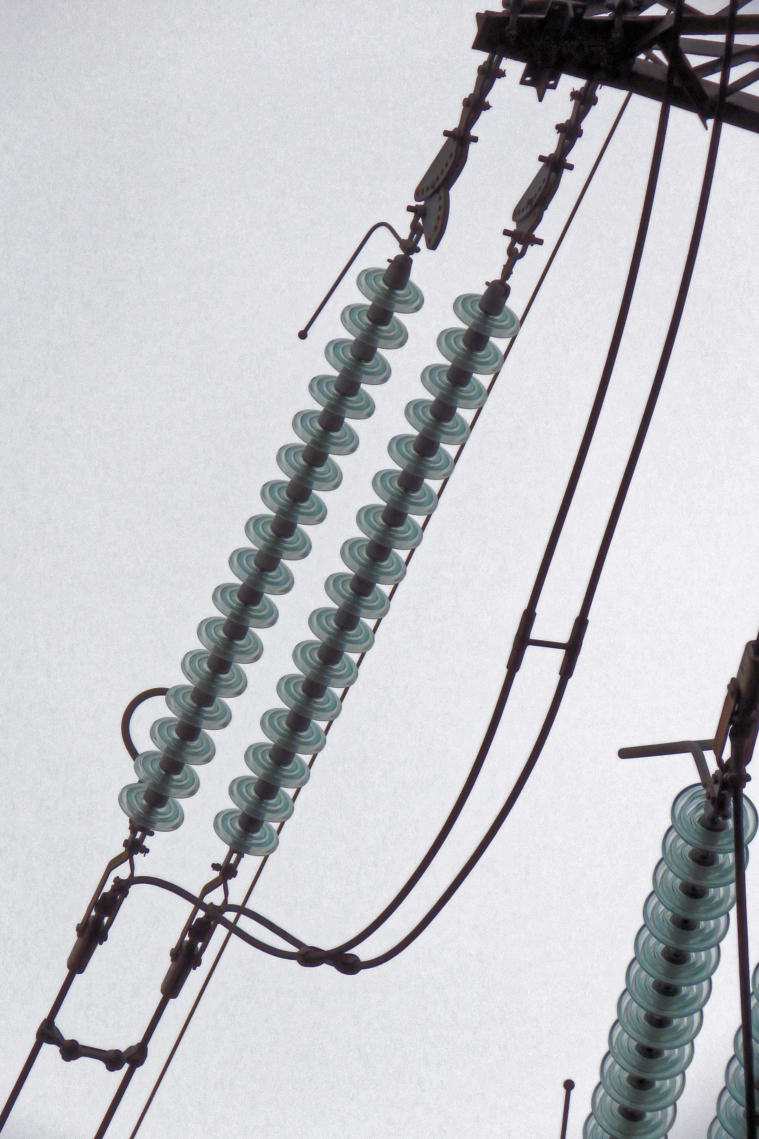 Electric pylon power line insulators from the car park of Sainsbury's Low Hall supermarket in Walthamstow, London, England.Camera: Canon PowerShot SX60 HS.Software: file lens-corrected and optimized with DxO PhotoLab Elite and Viewpoint 3, and further optimized with Adobe Photoshop CS2.